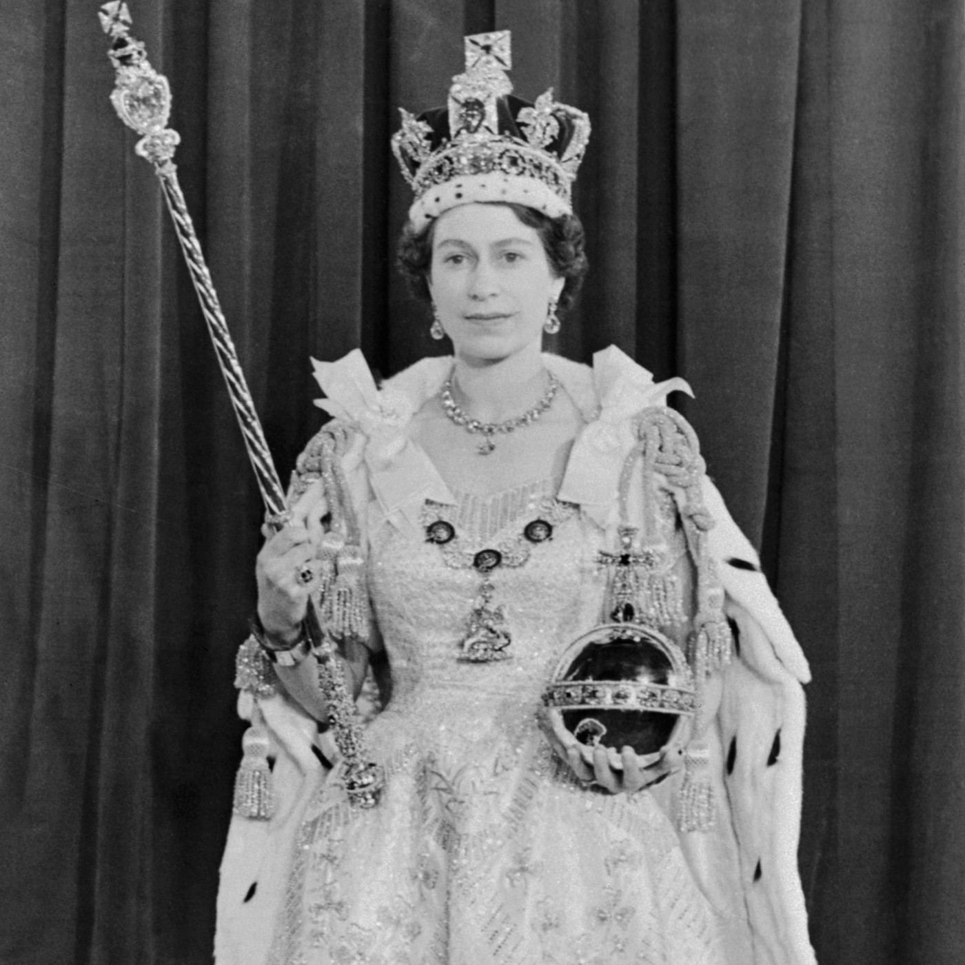 Elizabeth II wearing the Imperial State Crown and hold the Sovereign's Sceptre and Orb after her coronation day in 1953.